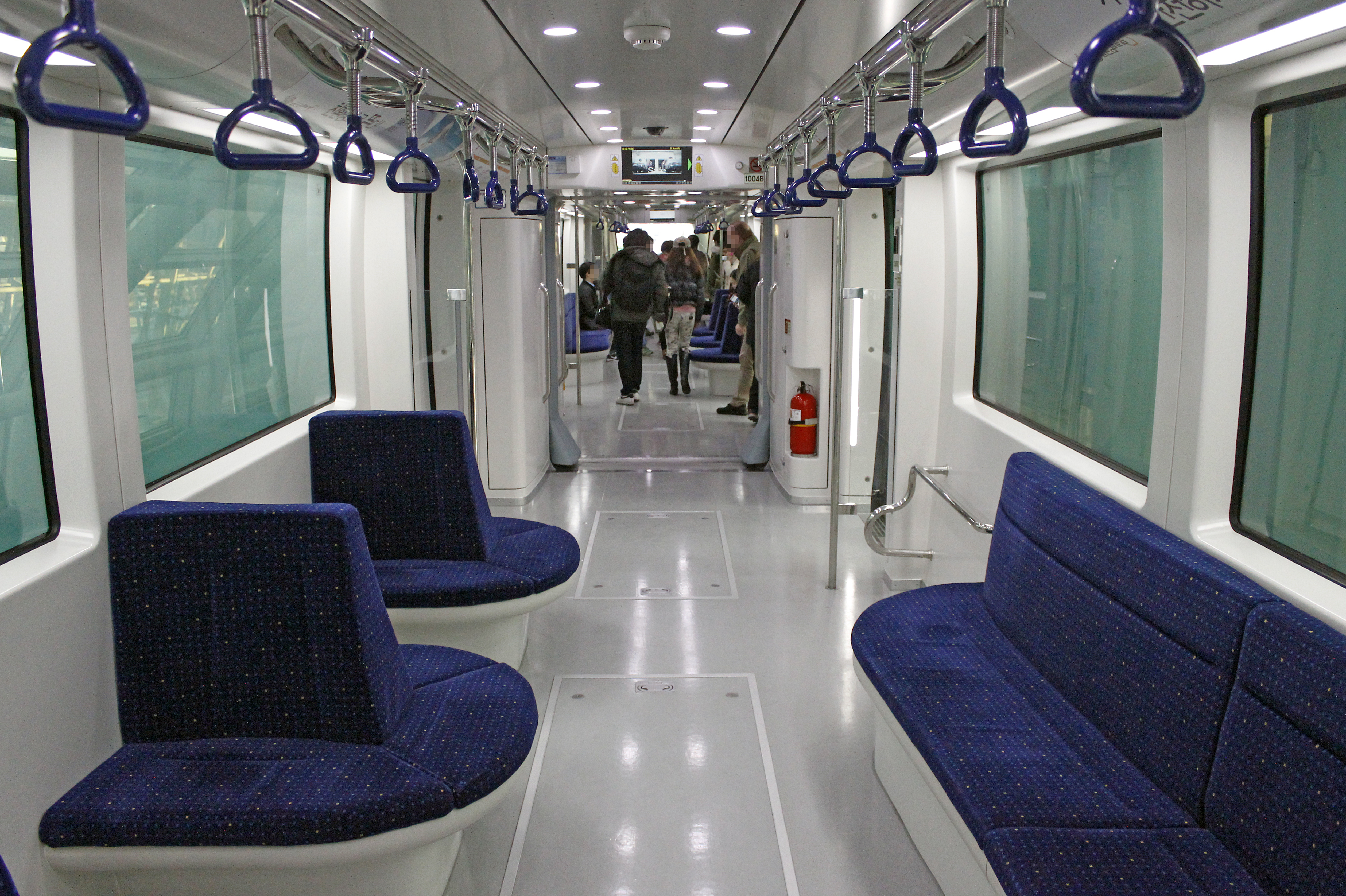 Interior of ECOBEE maglev train